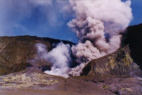 Main vent of Whakaari (White Island), Bay of Plenty, New Zealand